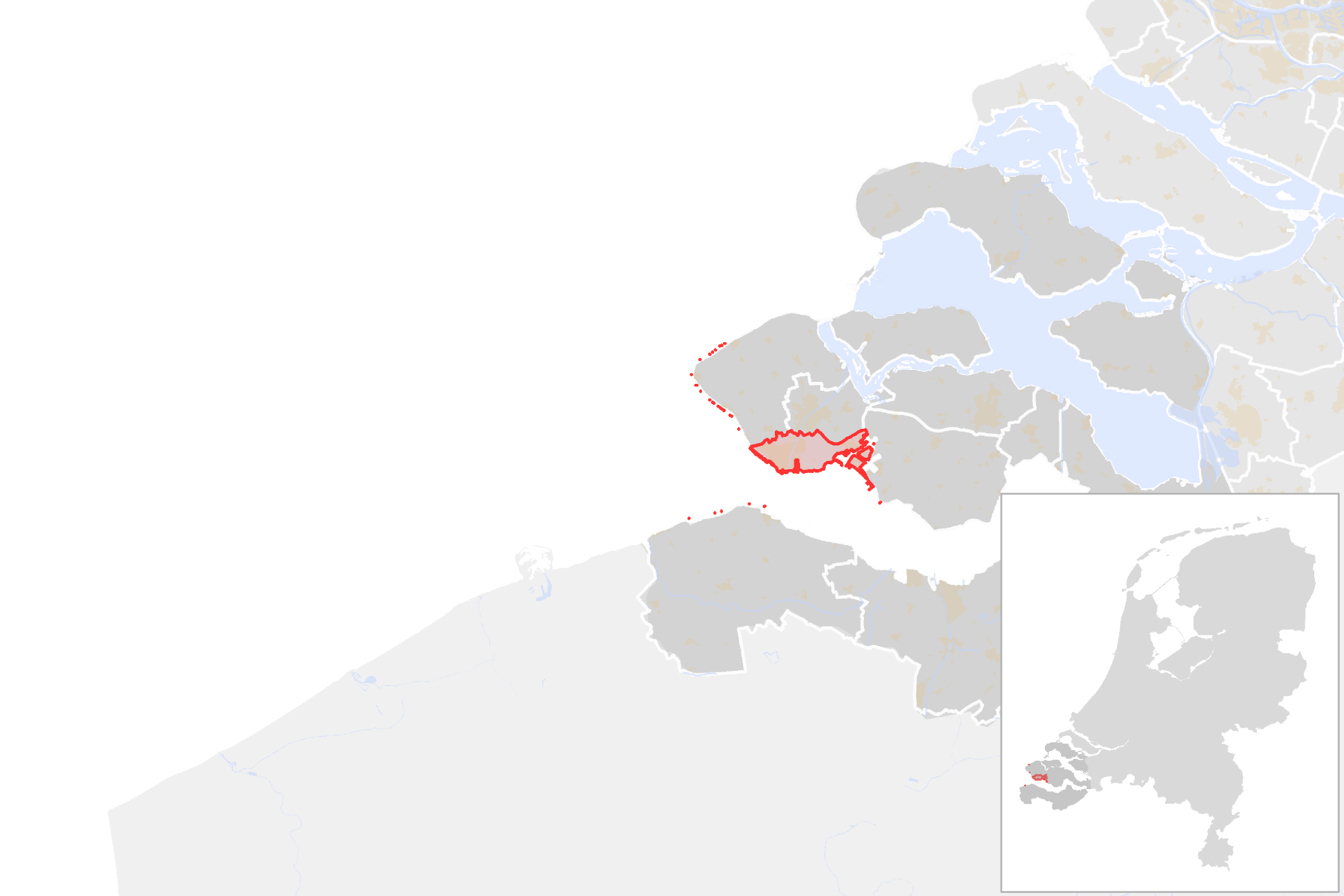 Locator map showing municipality boundary of one of the 390 Dutch municipalities (as of 2016)